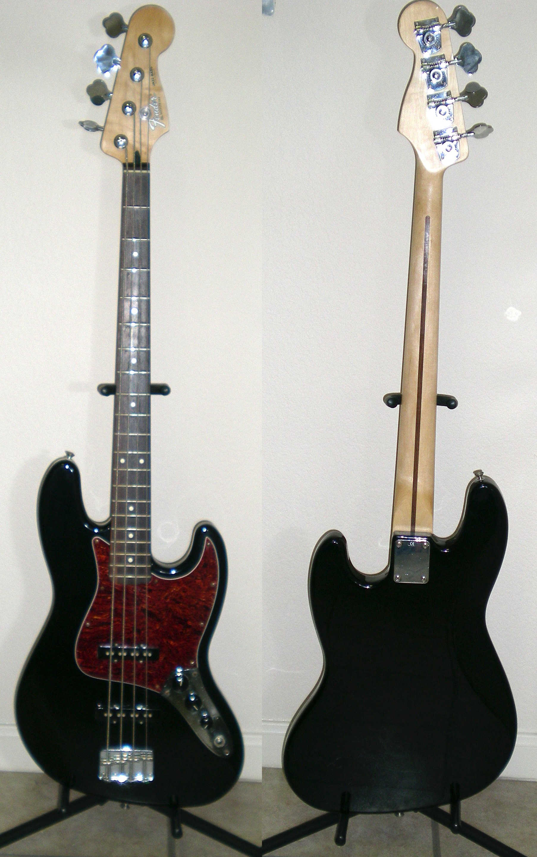 The front and back view of a 2003 Fender Standard Jazz Bass